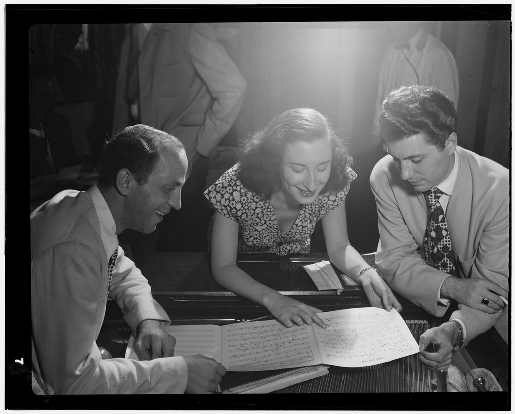 Clyde Lombardi, Barbara Carroll and Chuck Wayne, Downbeat, NYC, ca. September 1947. Photograph by William P. Gottlieb.